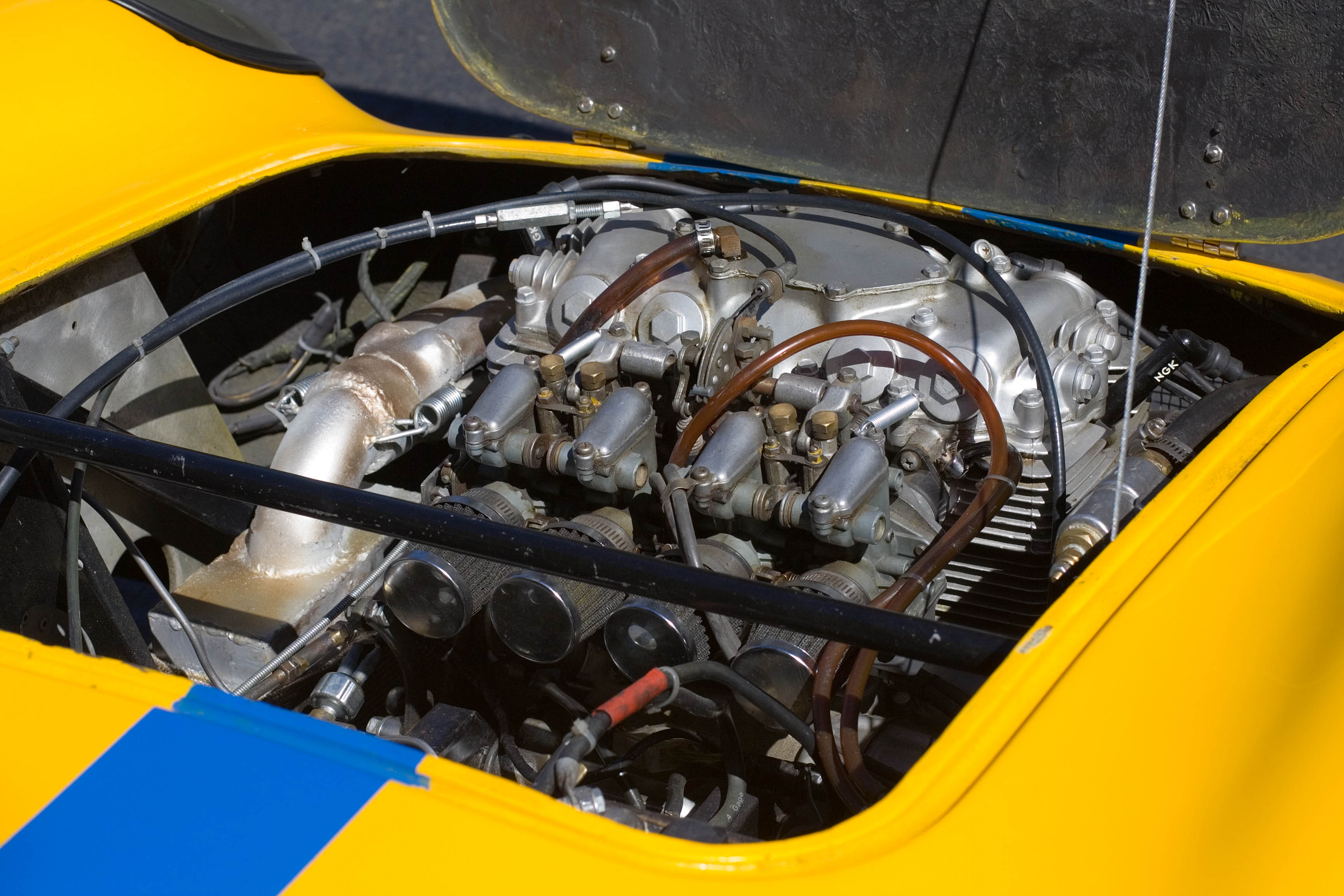 The Berkeley's swapped Honda CB 400 four-cylinder motorcyle engine. The owner said it originally had a three cylinder Excelsior-based air-cooled two-stroke engine.